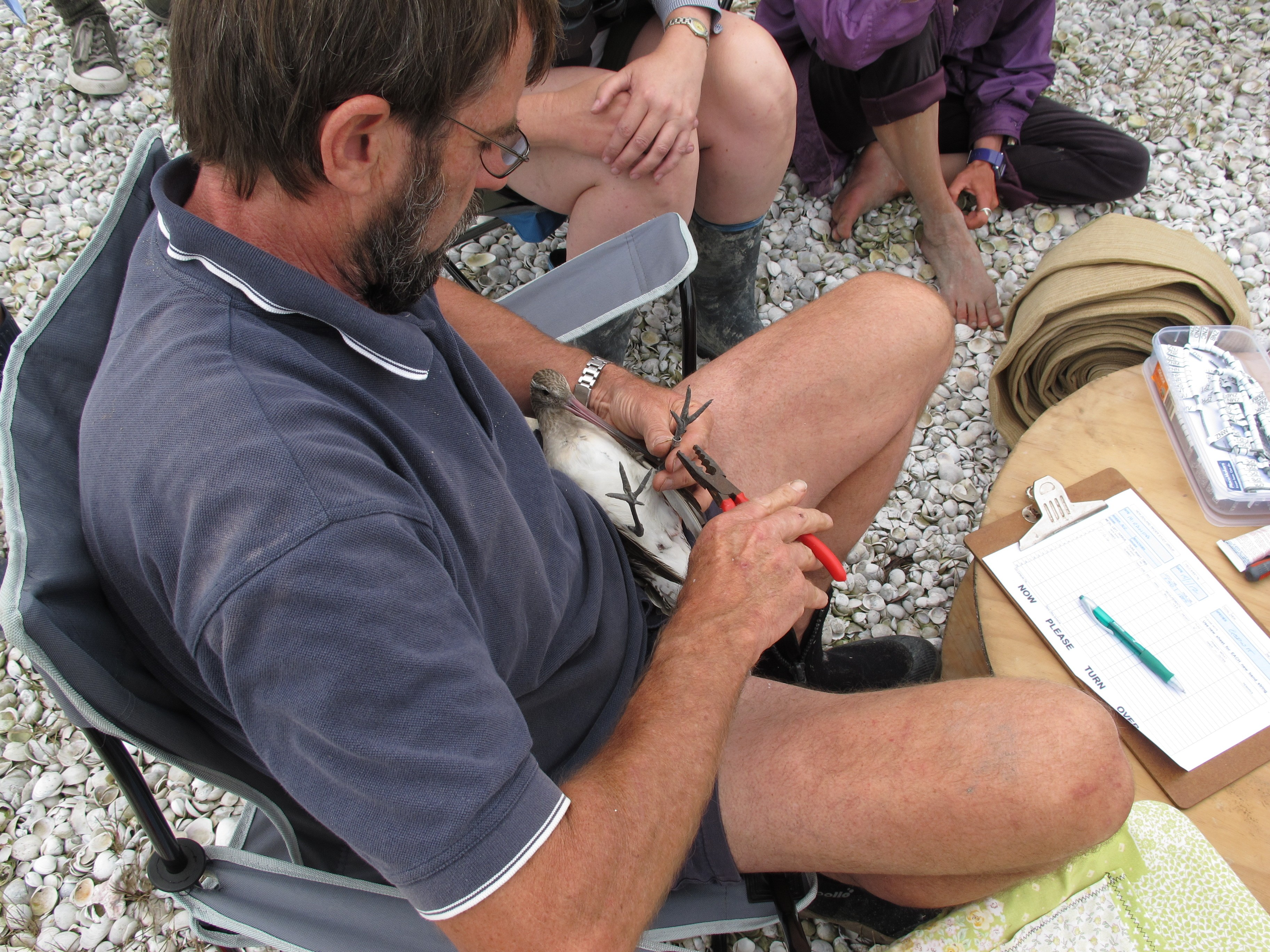 Adrian Riegen is ringing a Bar-tailed Godwit at Miranda Shorebird Centre, NZ